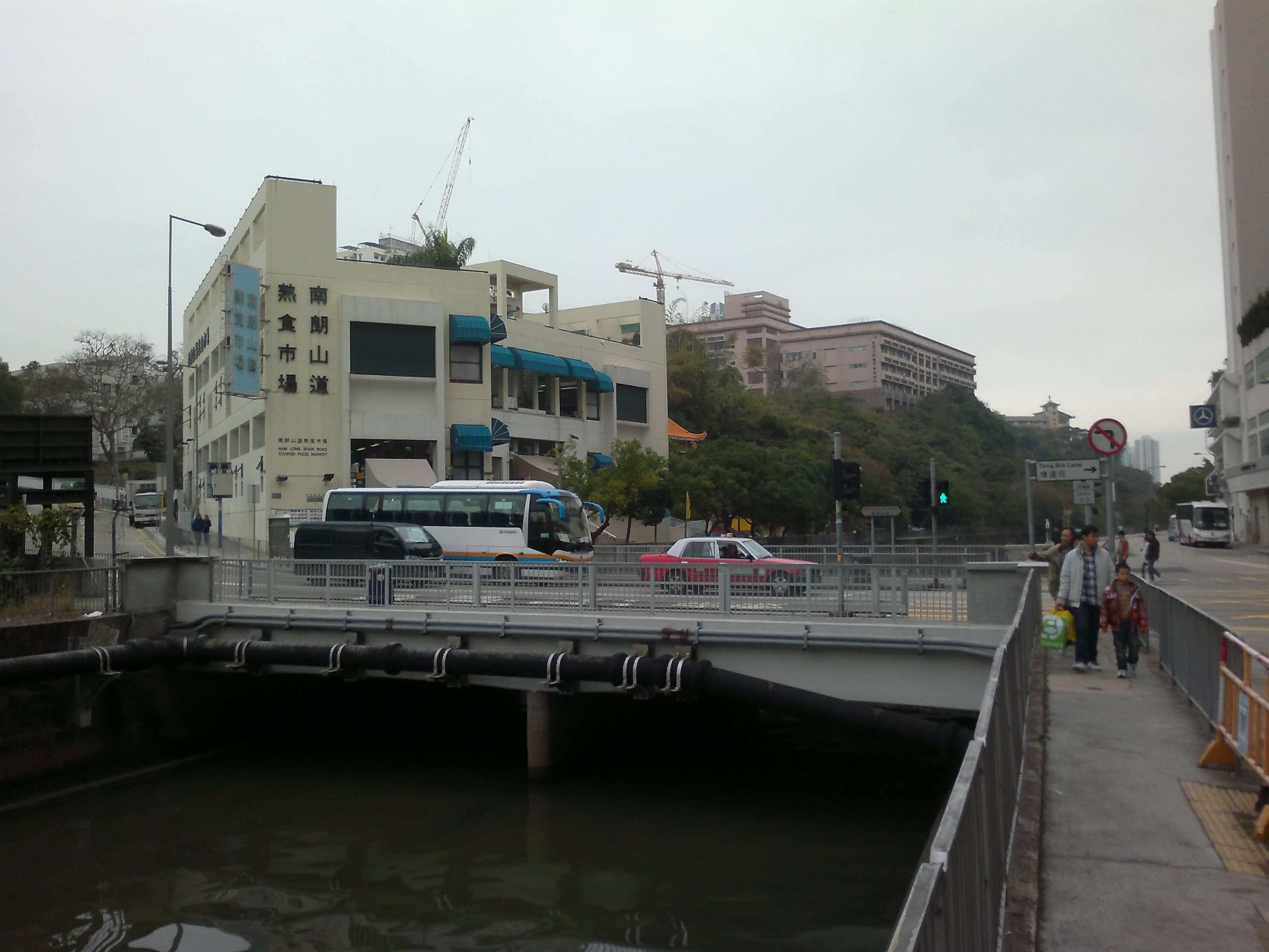 Nam Long Shan Road Cooked Food Market